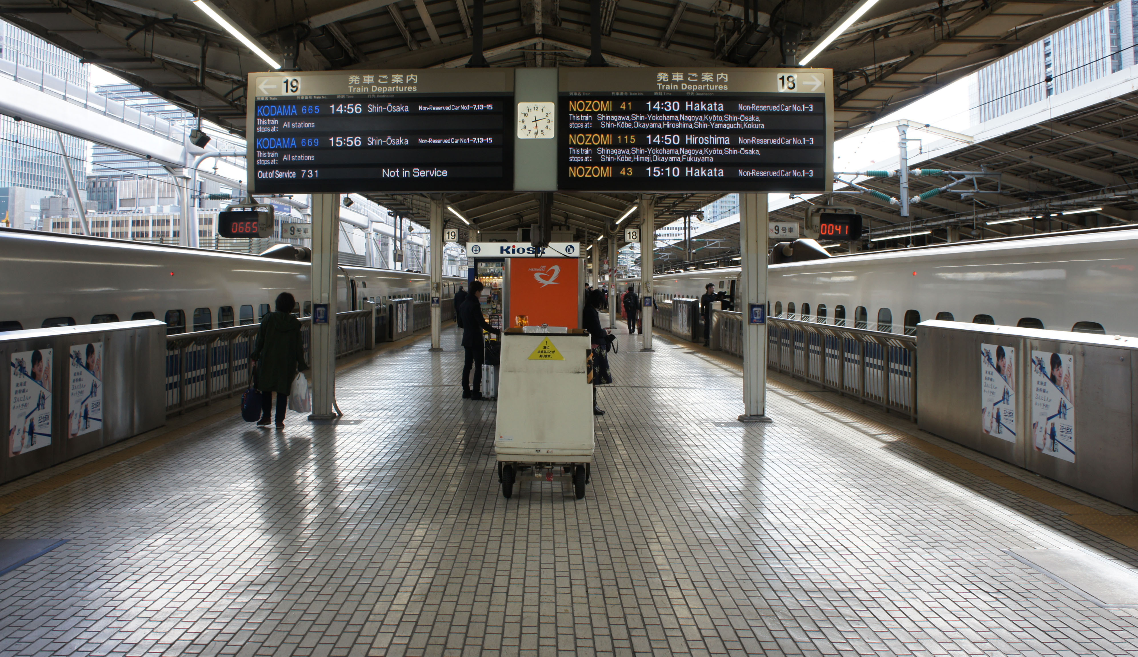 JR Tokyo Station Platform 18・19 (Tokaido Shinkansen) Sony NEX-3 + E 18-55mm F3.5-5.6 OSS